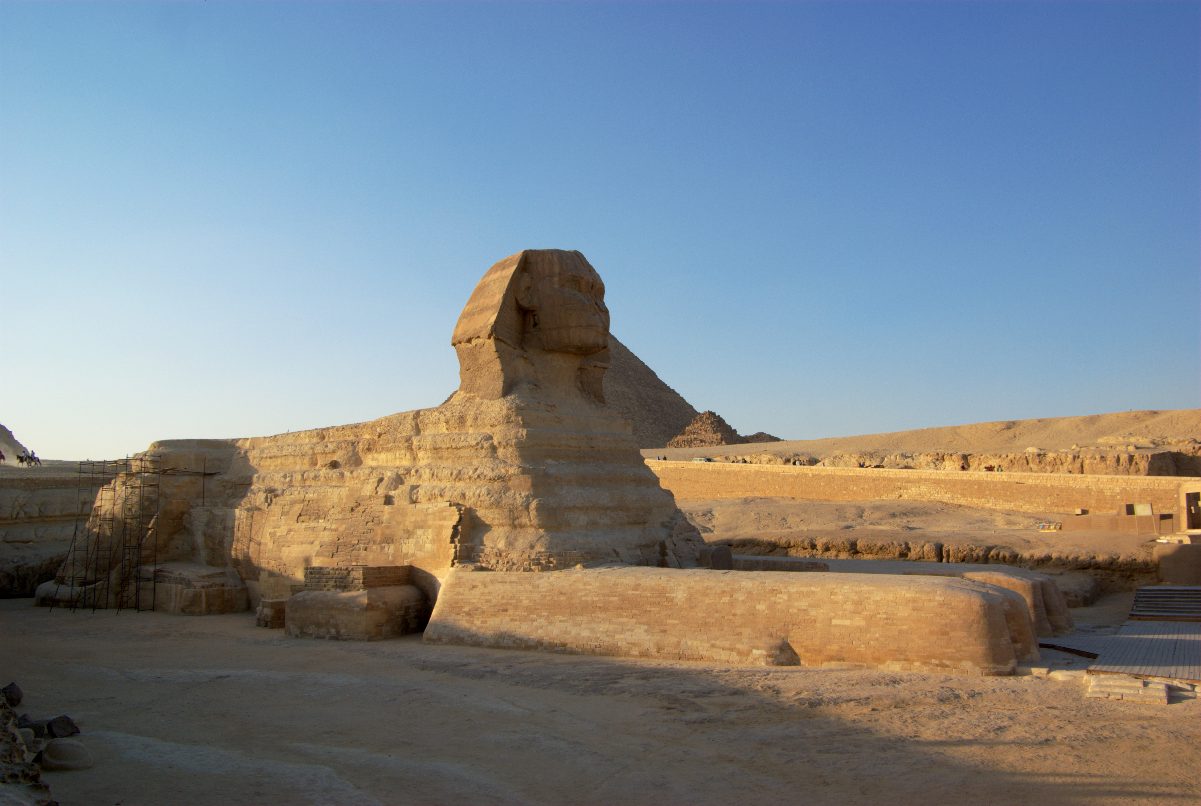 The Great Sphinx of Giza